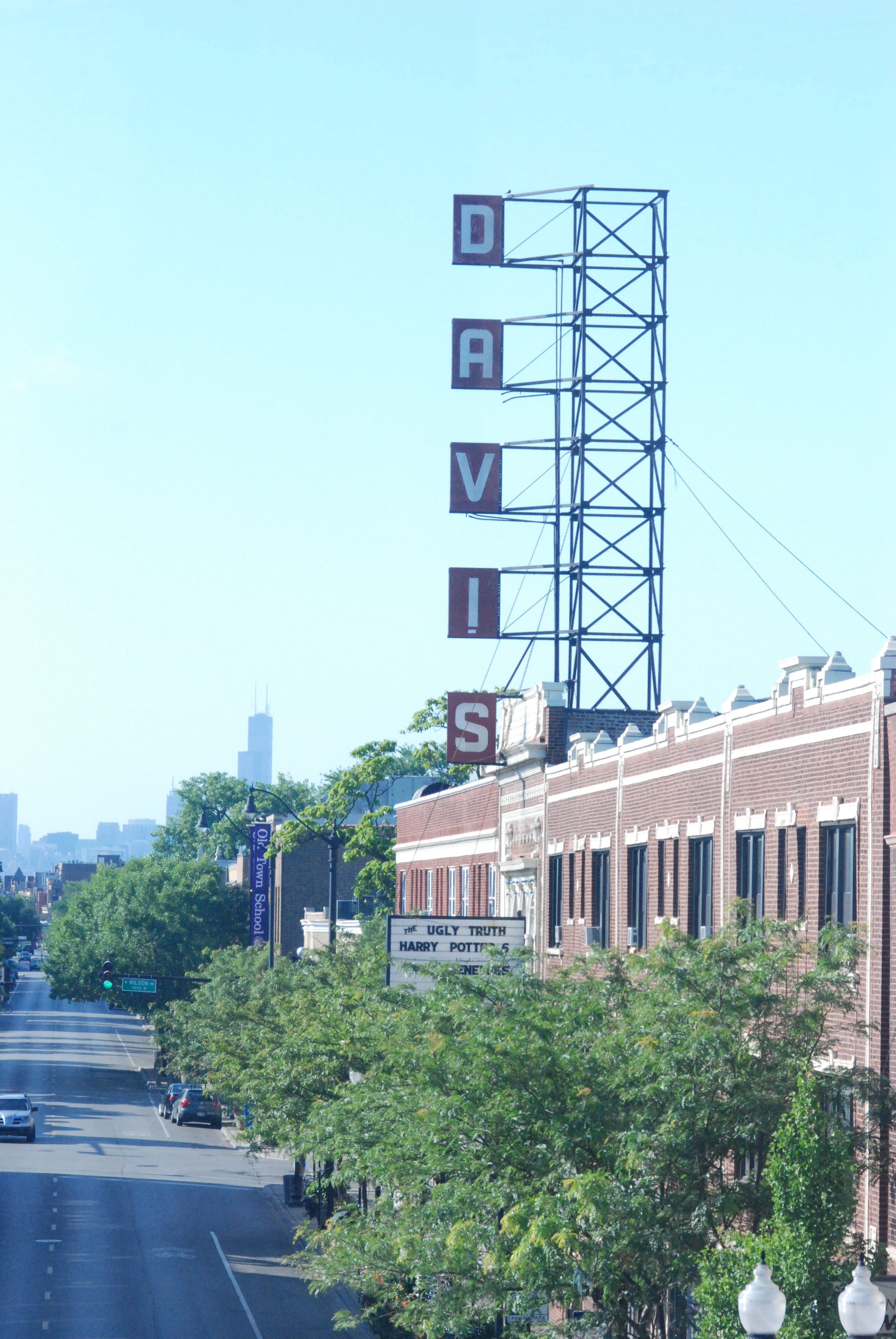 Photograph of the Davis Theater, facing southeast down Lincoln Avenue in Chicago, Illinois.